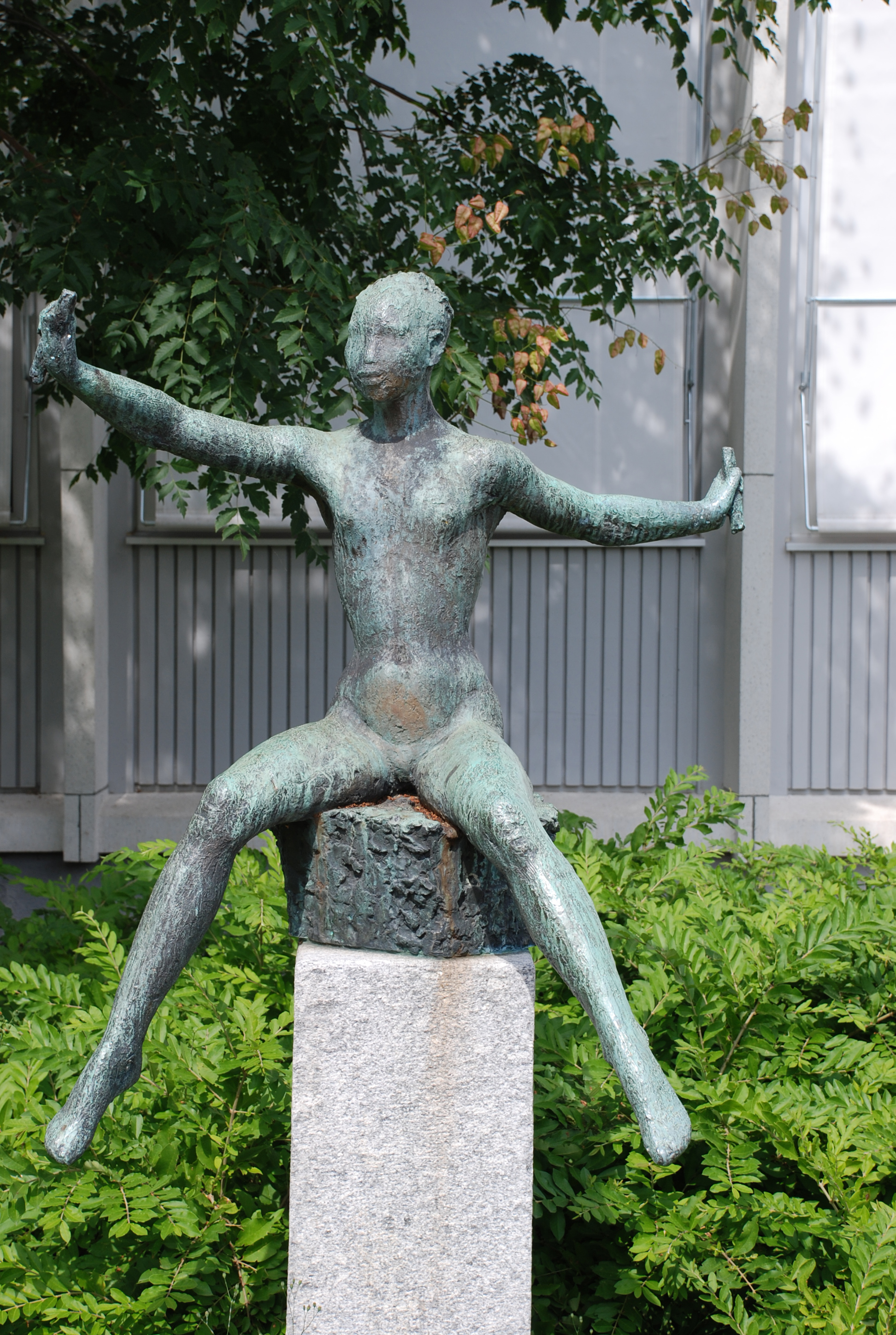 Sculpture "Playing Girl" (Bronze), 1953 by Hedwig Haller-Braus. Location: Schulhausanlage Lachenzelg. Imbisbühlstrasse, Zurich, Switzerland.